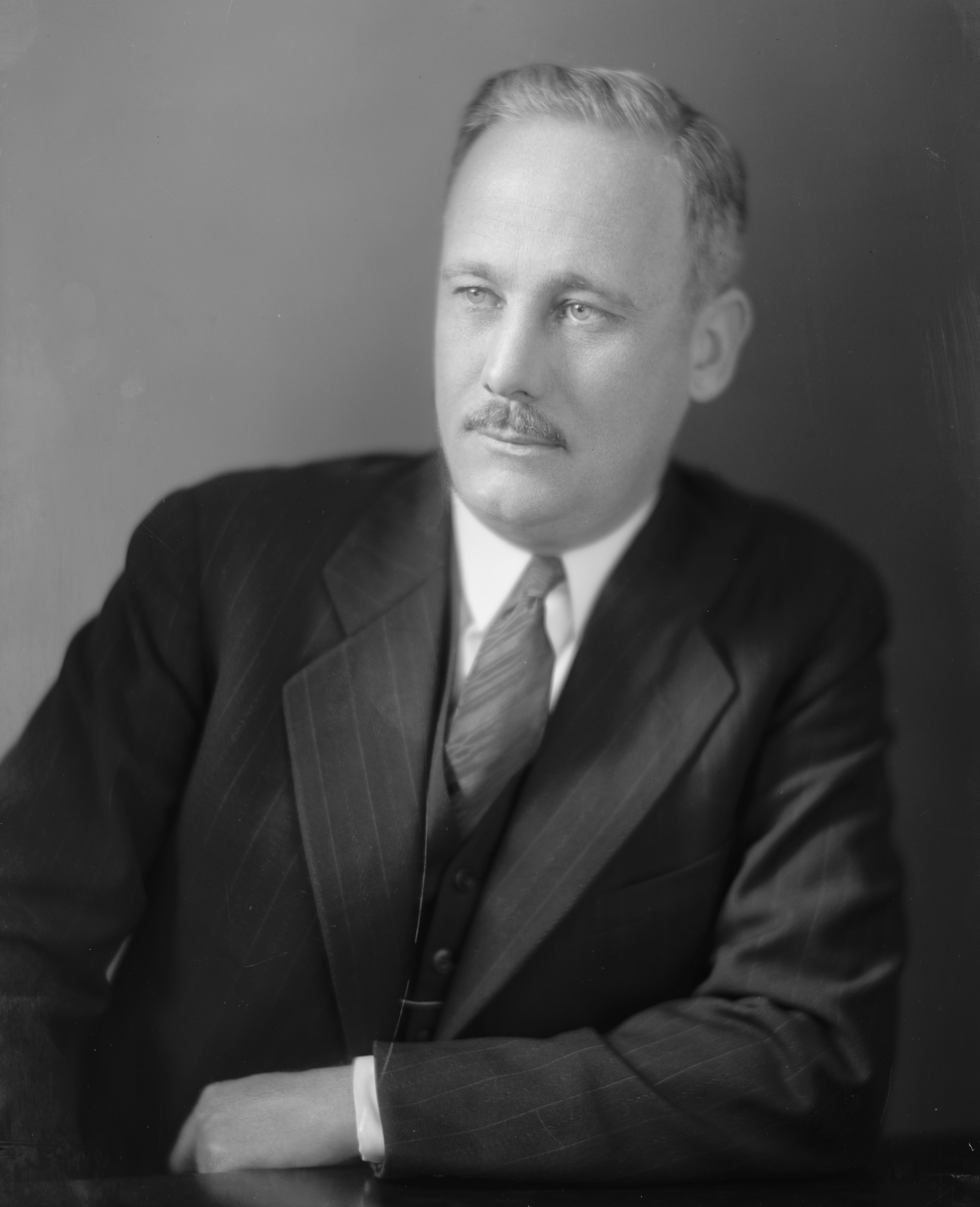 Title: HALL, ALVIN Abstract/medium: 1 negative : glass ; 8 x 10 in. or smaller